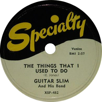 Guitar Slim Single